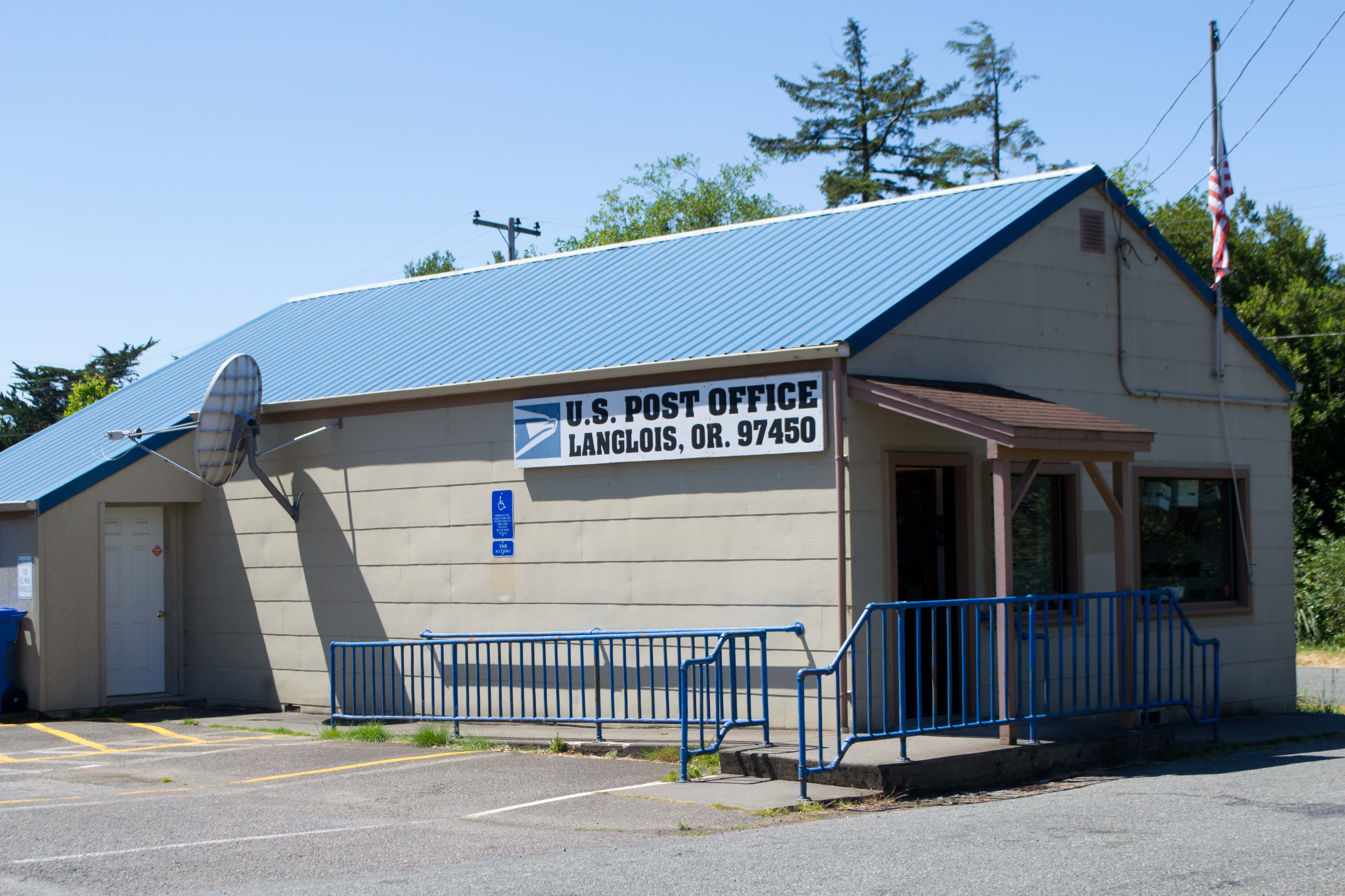 Post office on Second Street